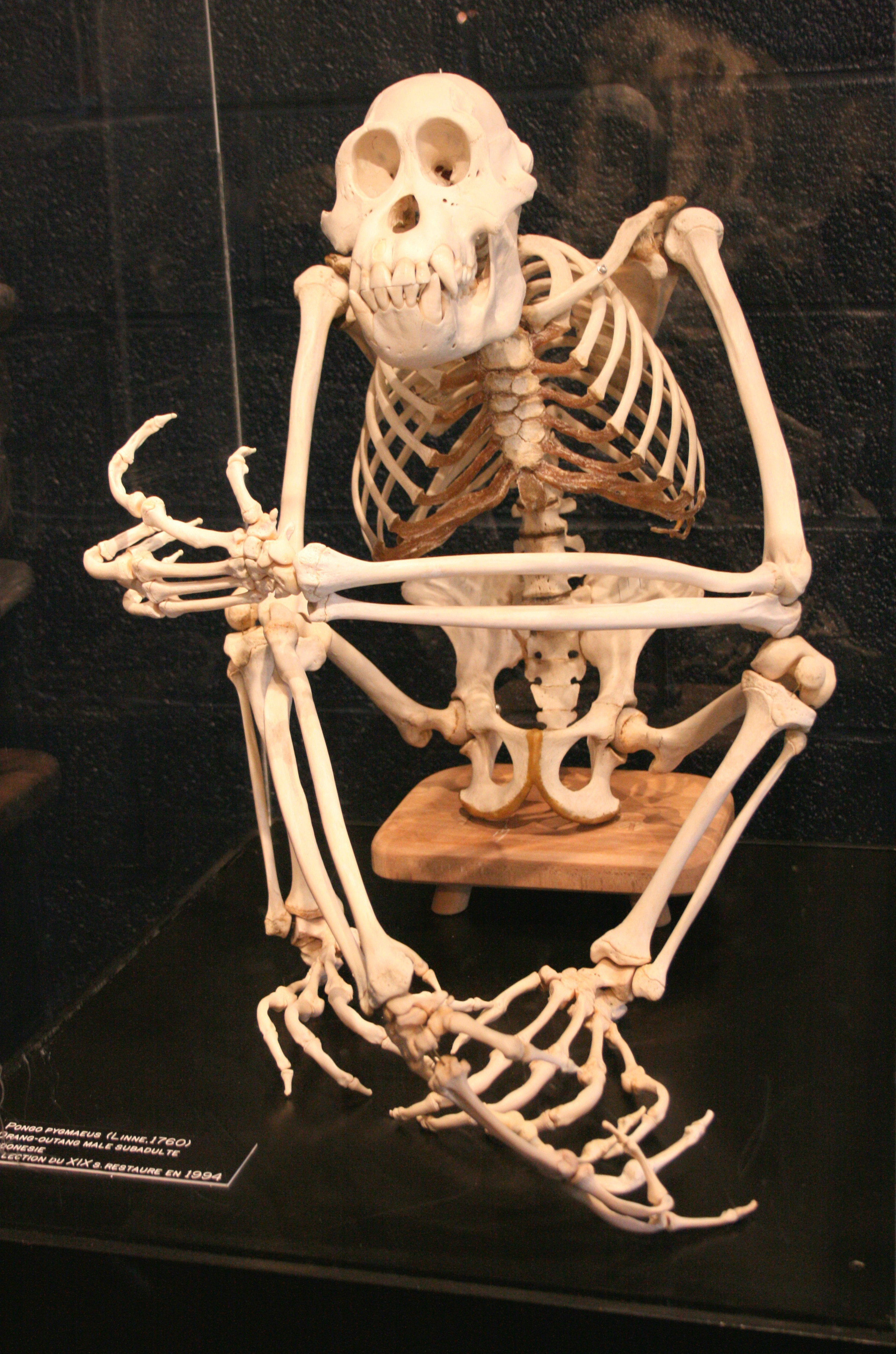 Skeleton of Orangutan (Pongo pygmaeus). 19th century. Musée d'histoire Naturelle, Tournai (Belgium)